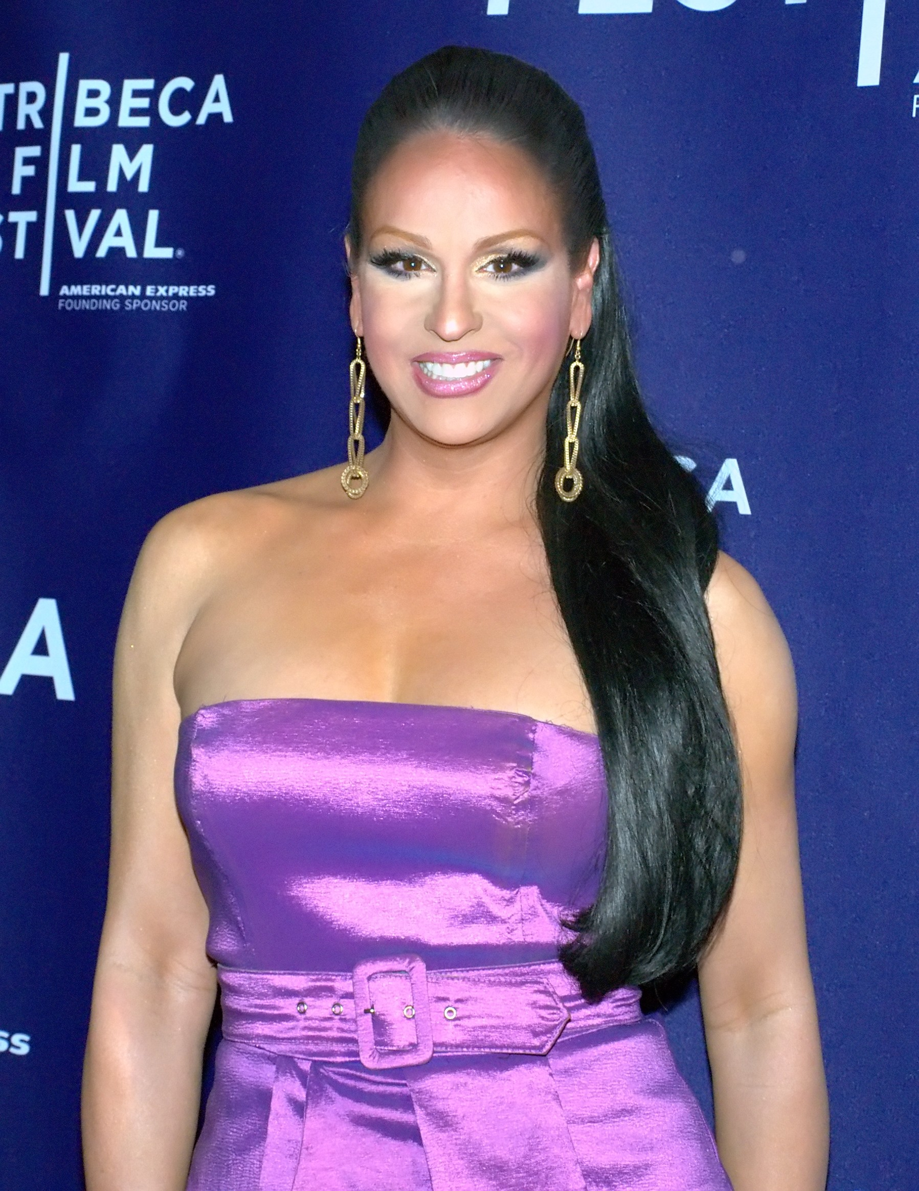 Erica Andrews at the 2010 Tribeca Film Festival for the premiere of Ticked Off Trannies with Knives.